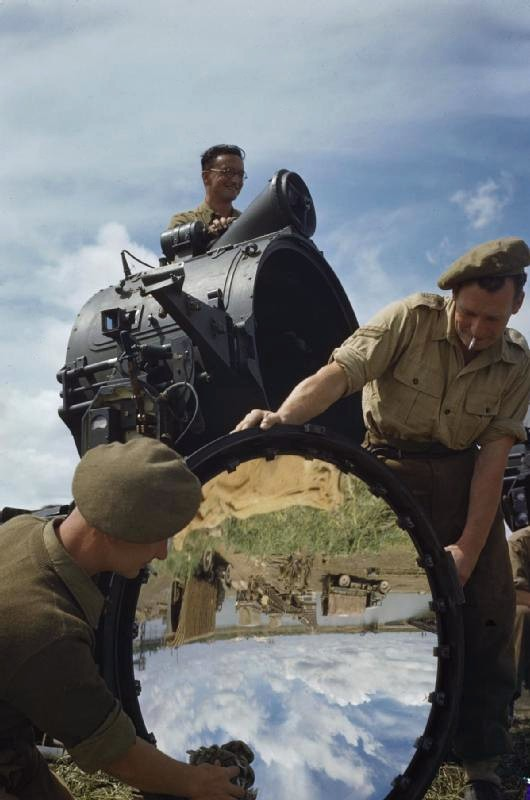 British Eighth Army Troops Crossing the River Po, Beyond Ferrara, Italy, 28 April 1945 Men of the Royal Artillery searchlight crew clean the mirror of the light during the erection of the searchlight overlooking the pontoon Bailey bridge over the River Po, part of which is shown upside down in the reflection of the mirror.